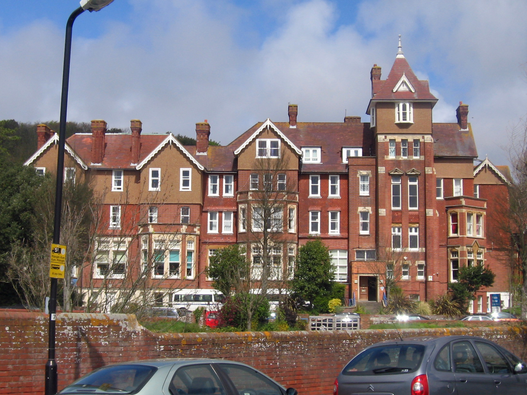 Moira House Girls School, Meads, Eastbourne